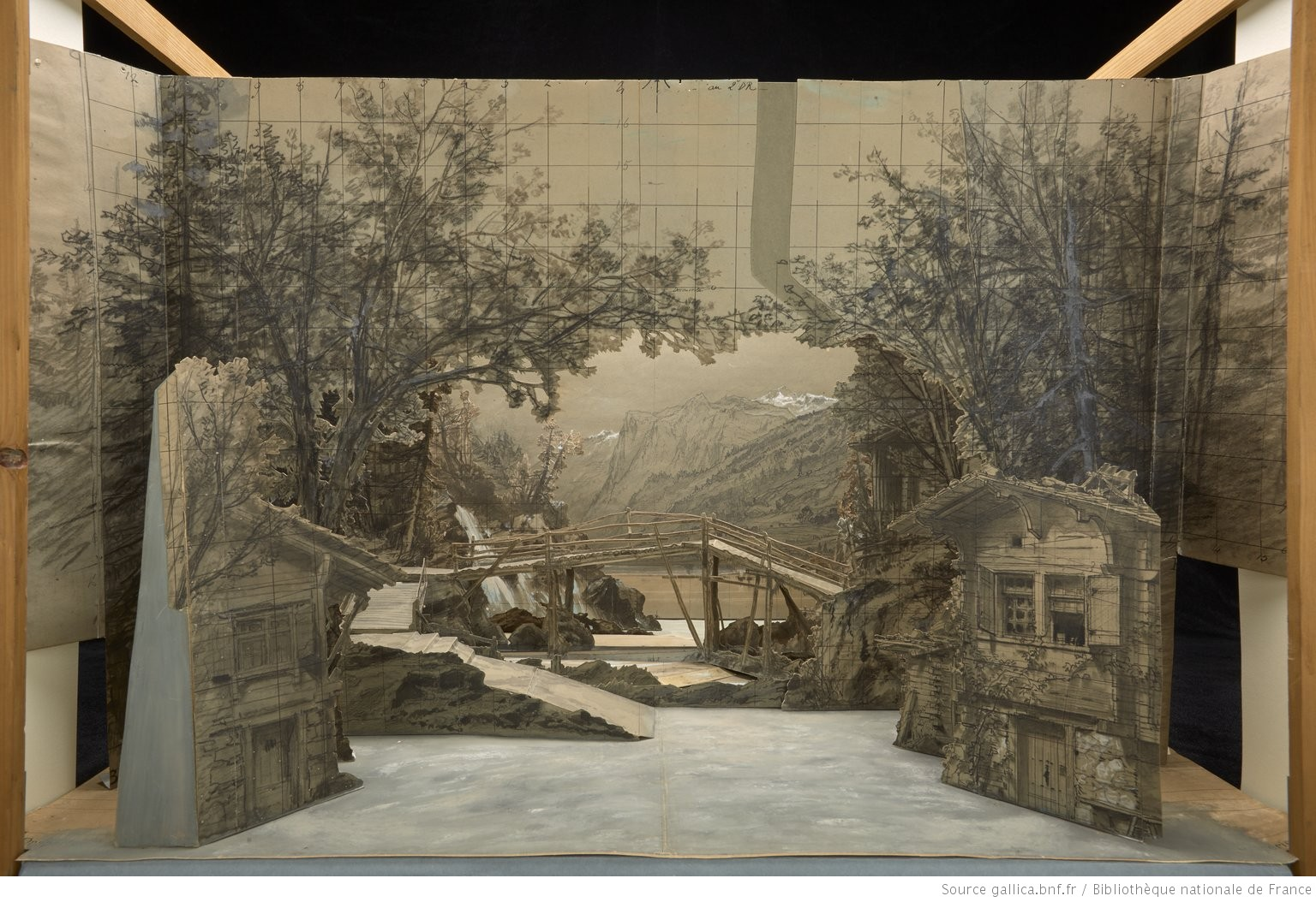 Act I, William Tell, Rossini